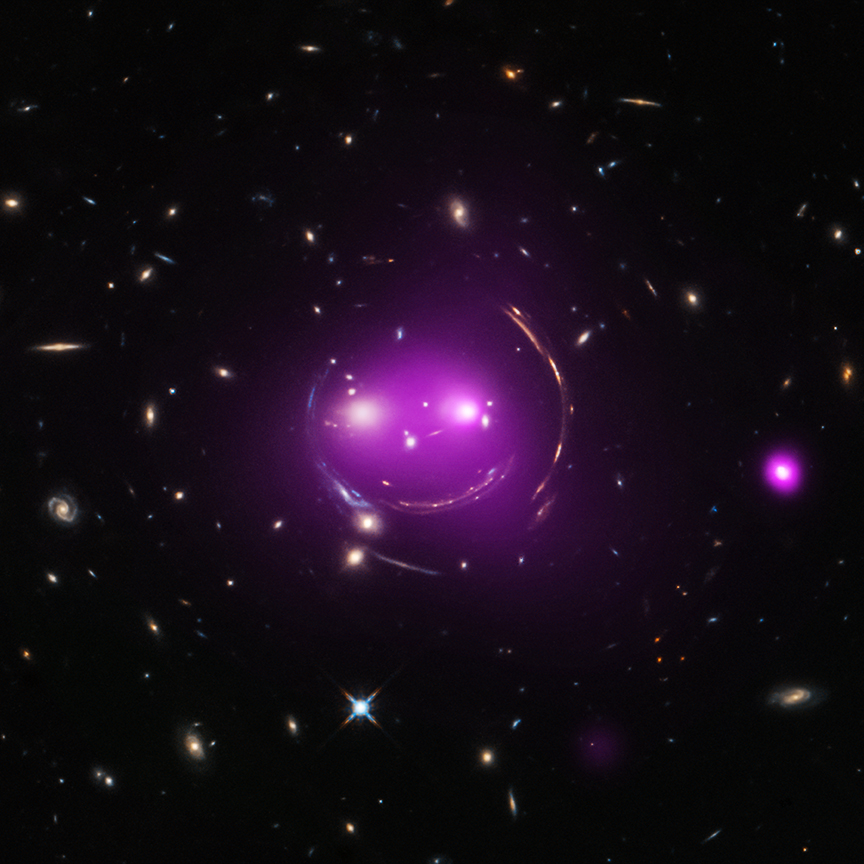 Astronomers think that in the future the "Cheshire Cat" group will become what is known as a fossil group, a gathering of galaxies that contains one giant elliptical galaxy and other much smaller, fainter ones. Today, researchers know each "eye" galaxy is the brightest member of its own group of galaxies and these two groups are racing toward one another at over 300,000 miles per hour. Data from Chandra (purple), which has been combined with optical data from Hubble, show hot gas that has been heated to millions of degrees, which is evidence that the galaxy groups are slamming into one another. Chandra's X-ray data also reveal that the left "eye" of the Cheshire Cat group contains an actively feeding supermassive black hole at the center of the galaxy.